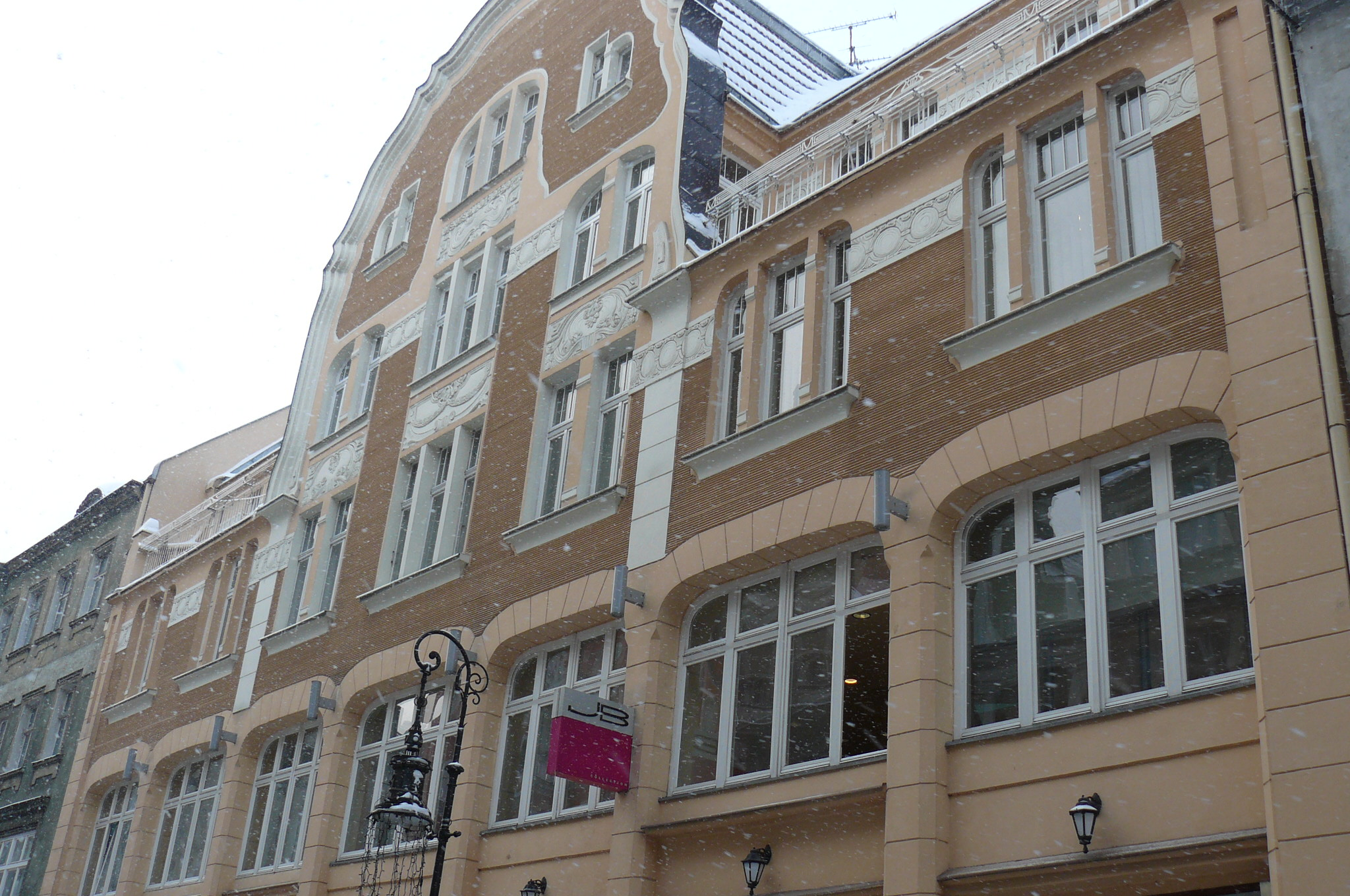 Warehouse Dajerling Poznan. Wroclawska St.